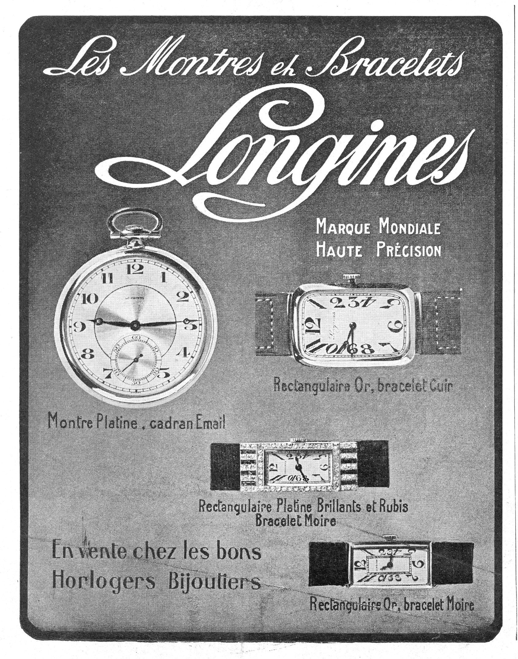 Longines watches : advertisement of 1924